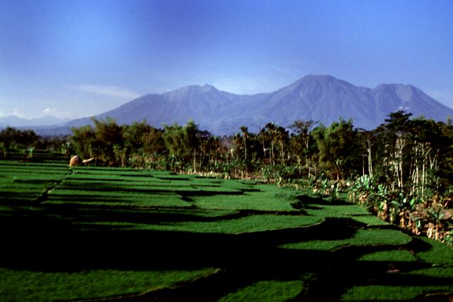 Kawi-Butak is volcanic massif lies immediately east of Kelut volcano. The high point of the complex is flat-topped 2868-m-high Gunung Butak on the right horizon. The 2551-m-high Gunung Kawi si in the left side.